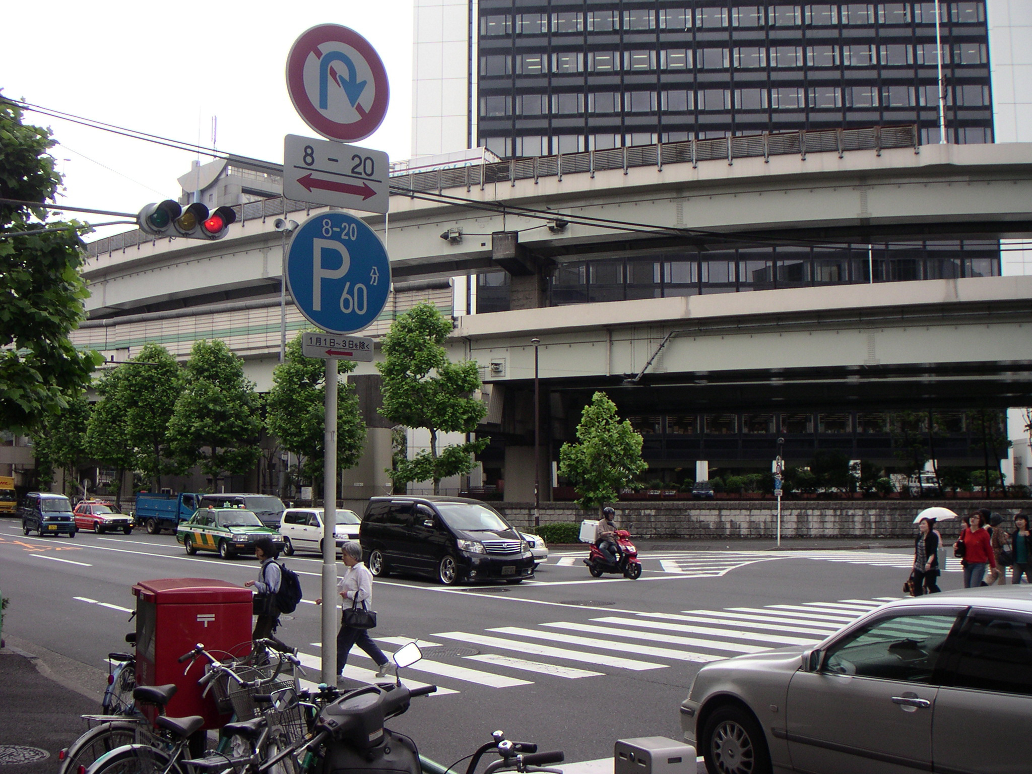 Takebashibashi Junction